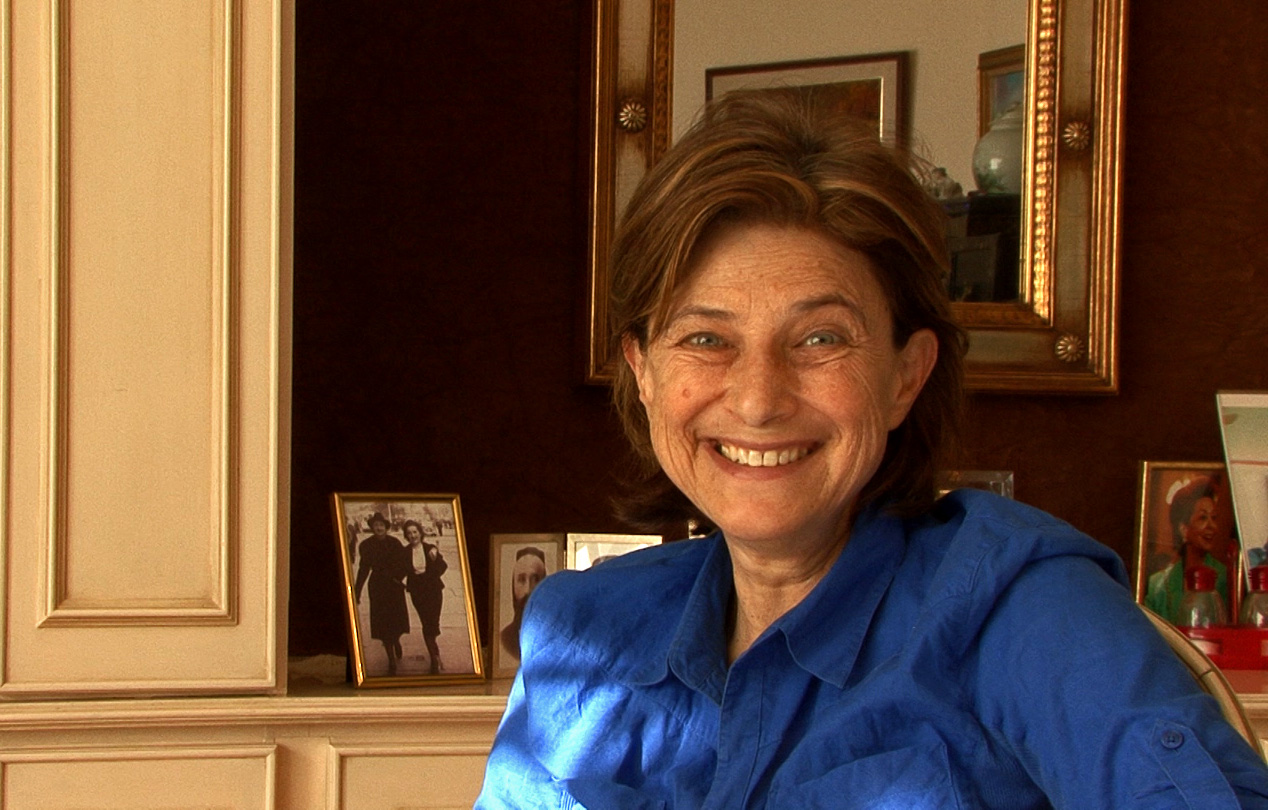 Still from the video Chantal Akerman - Too Far, Too Close